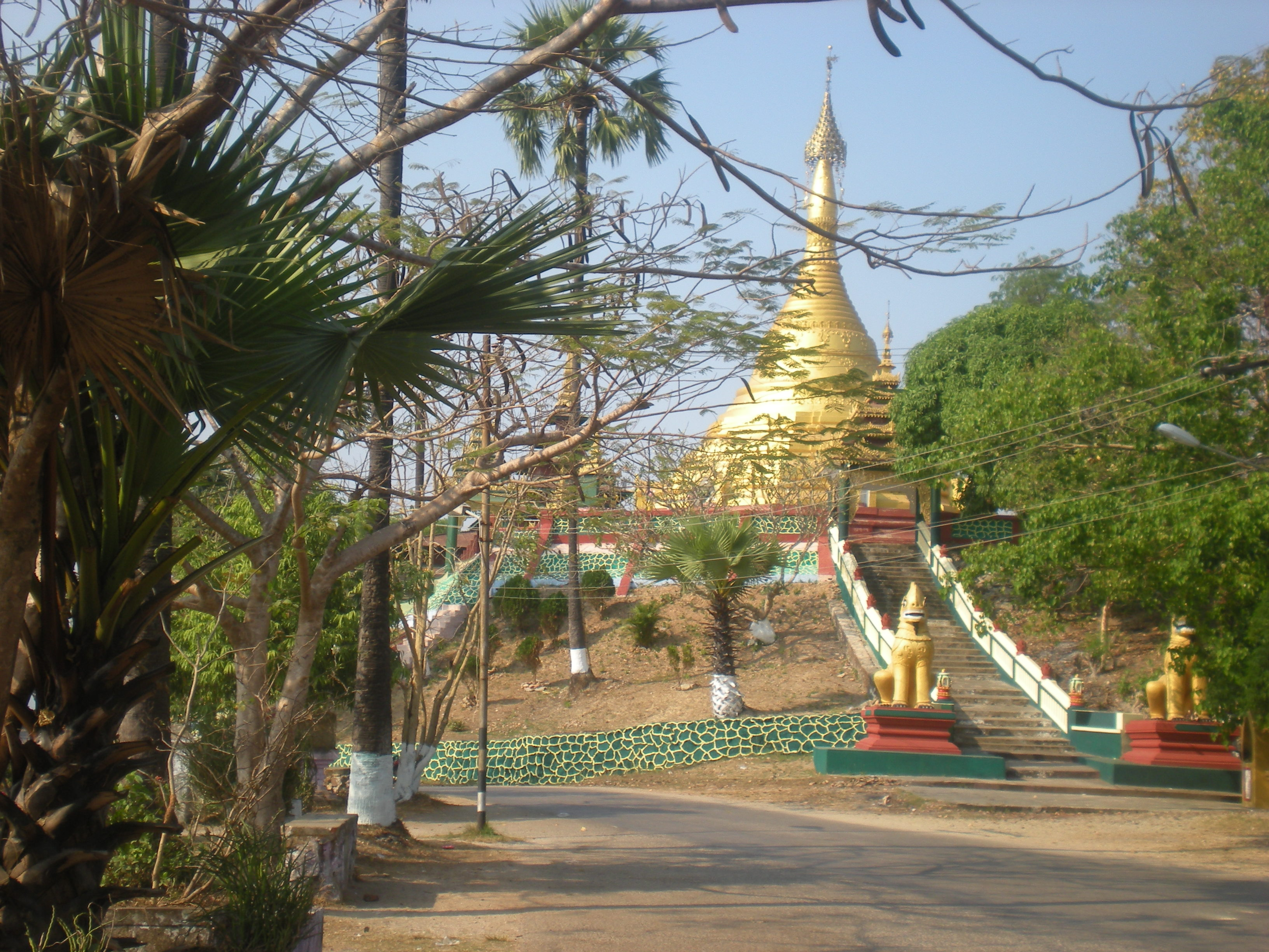 A pagoda at the peak viewpoint of Mawlamyine